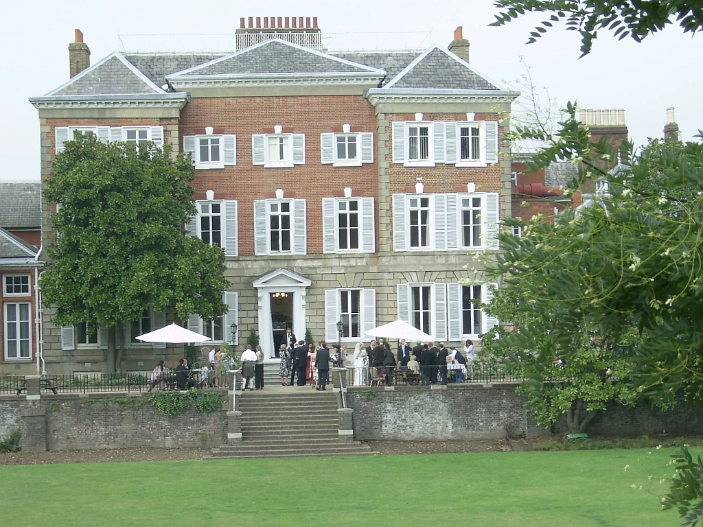 Sought after for weddings.